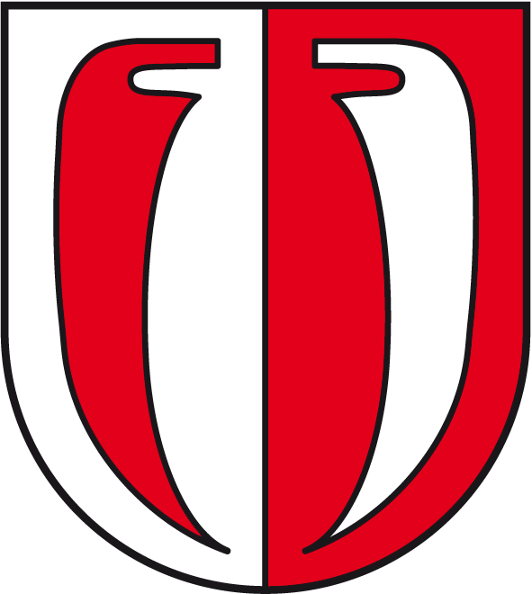 Coat of arms of Schneidlingen, Part of Hecklingen